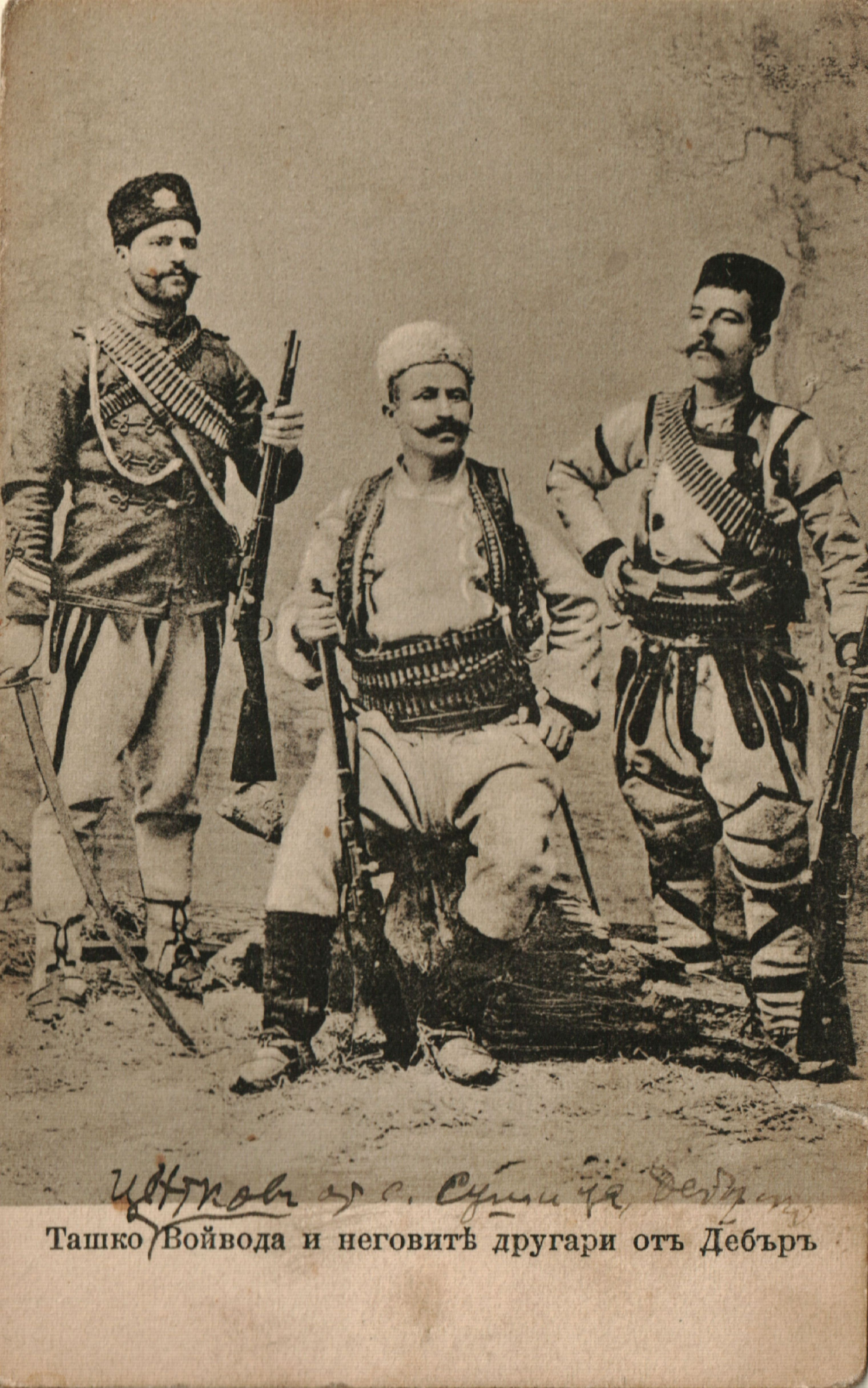 Tashko Tsvetkov